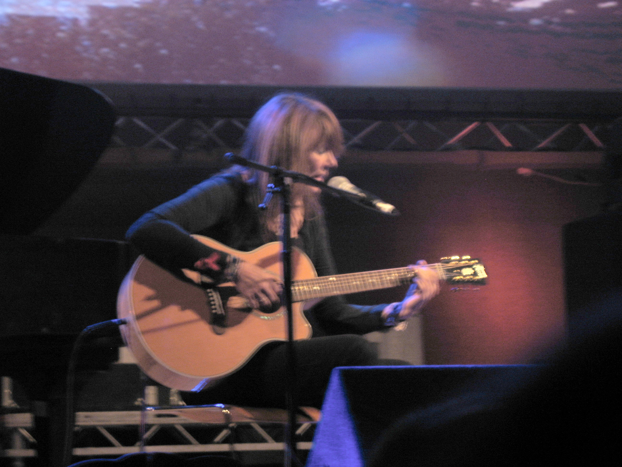 Vashti Bunyan performing at the Summer Sundae music festival in Leicester